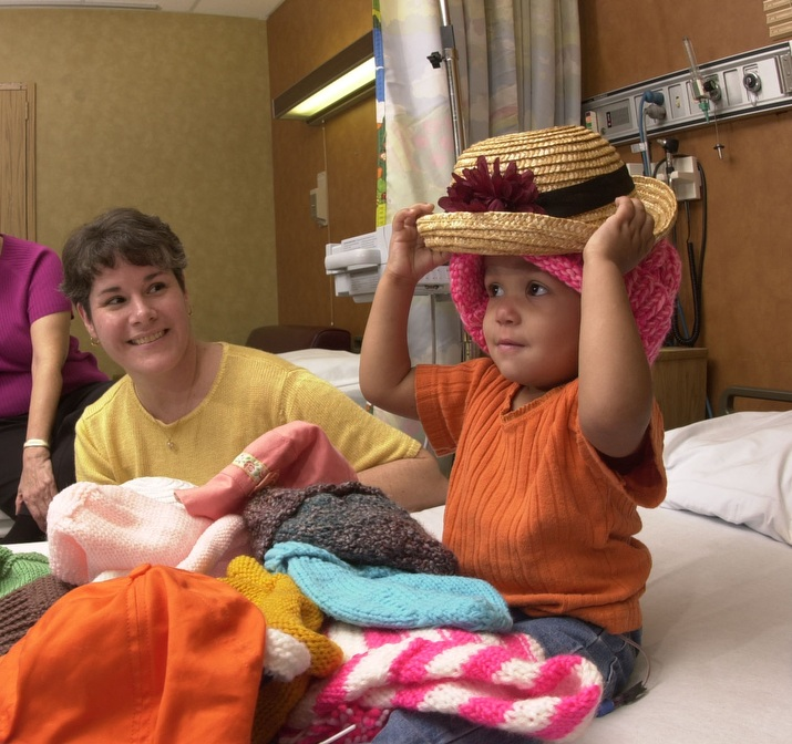 22-month old girl trying out hats to wear after chemotherapy-induced hair loss. Taken at one of the biweekly visits to the hospital for chemotherapy against a Wilms tumor that was previously surgically removed. Photo taken in San Antonio, Texas, US